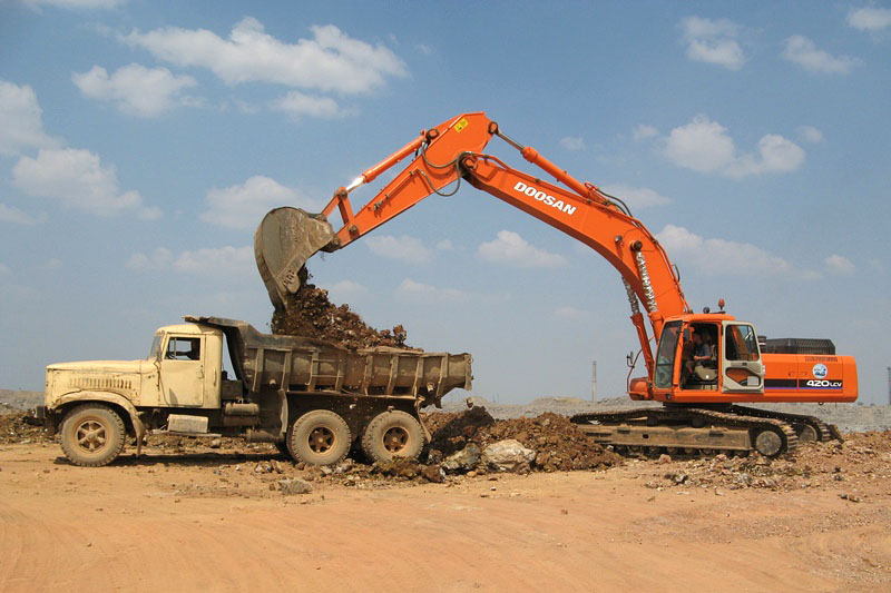 Quarry in Kazakhstan: a KrAZ-256 dump truck gets stones from a Doosan 420 excavator.